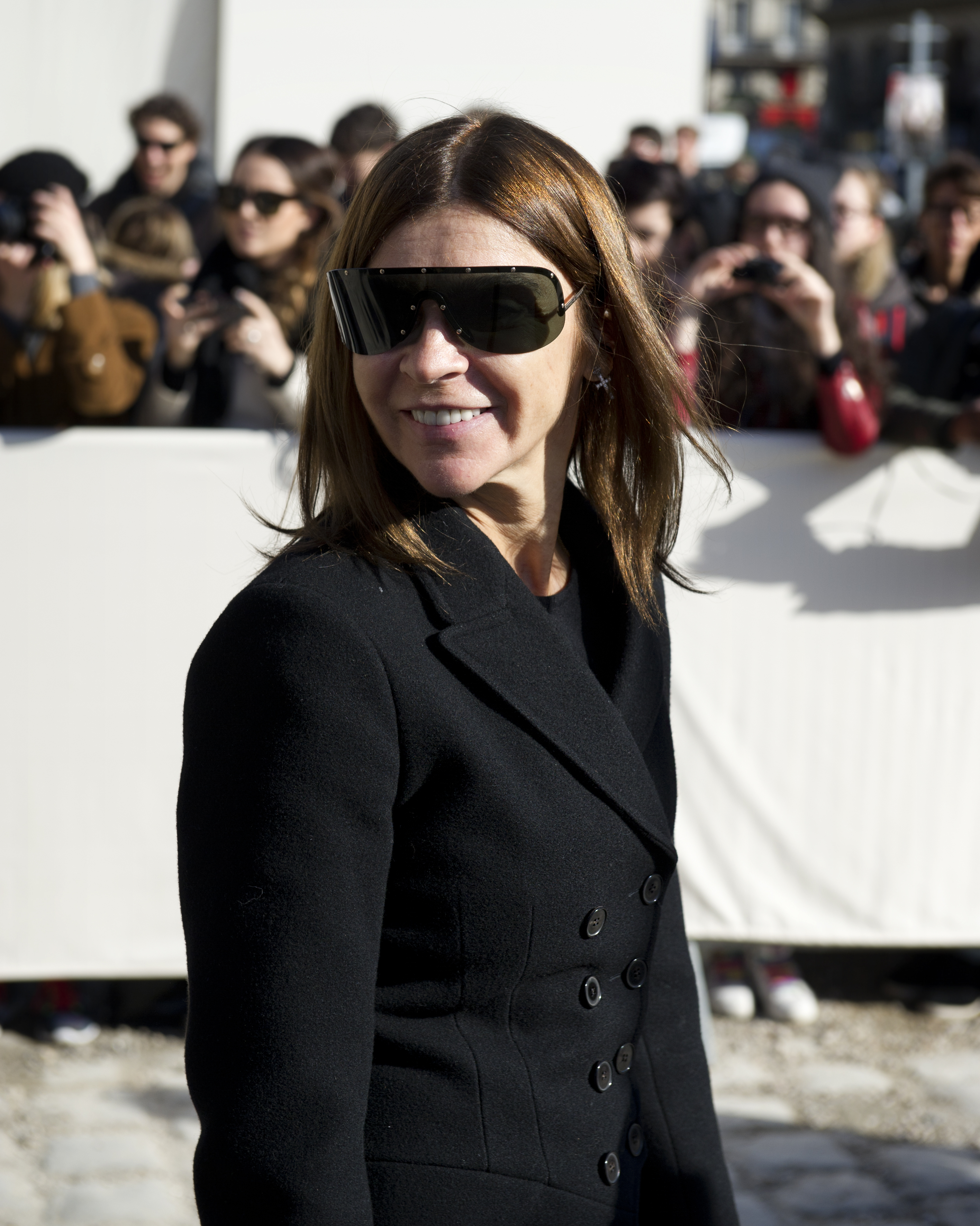 Louis Vuitton autumn/winter 2014 fashion show, Paris, France.